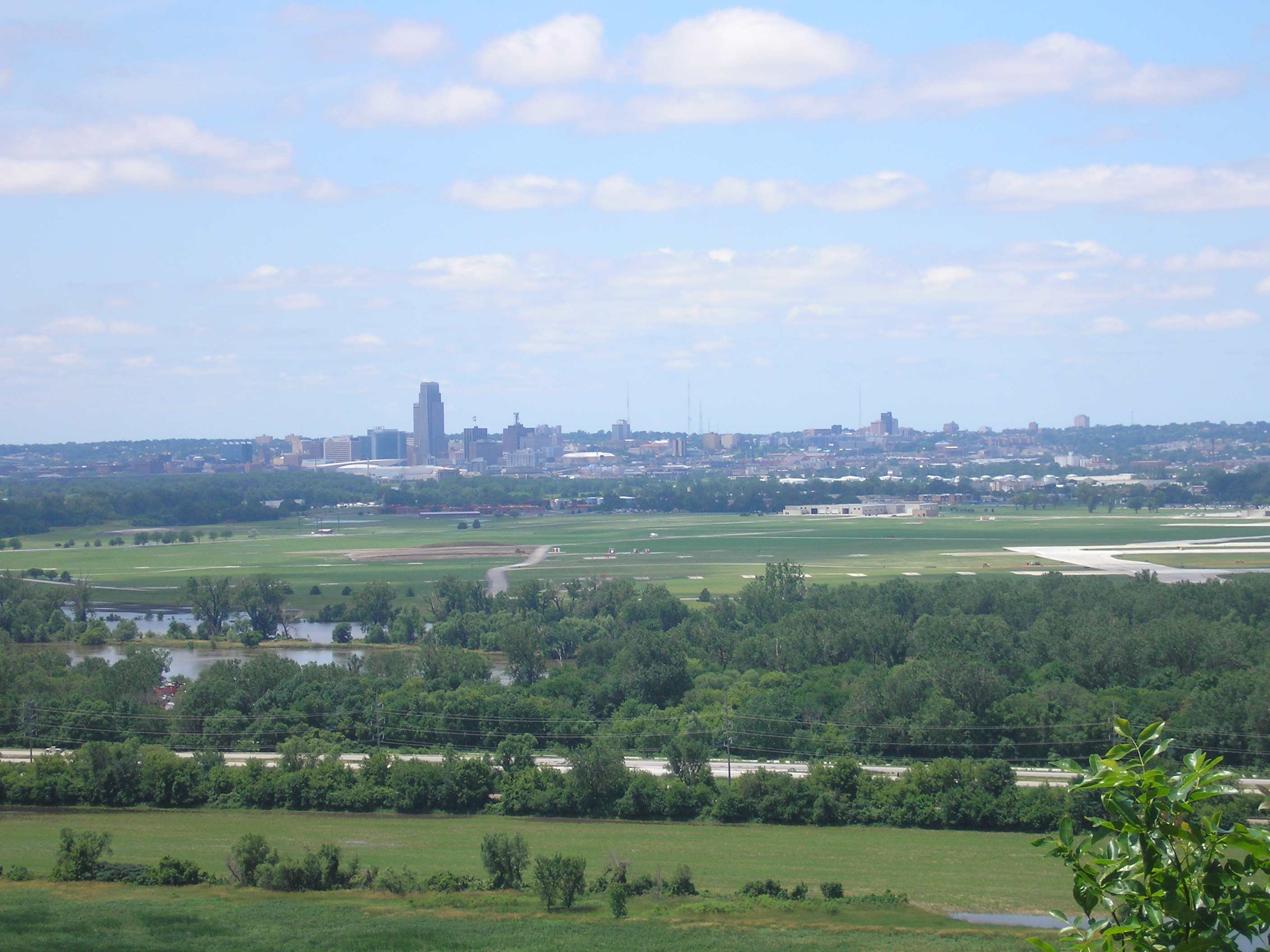 Downtown Omaha